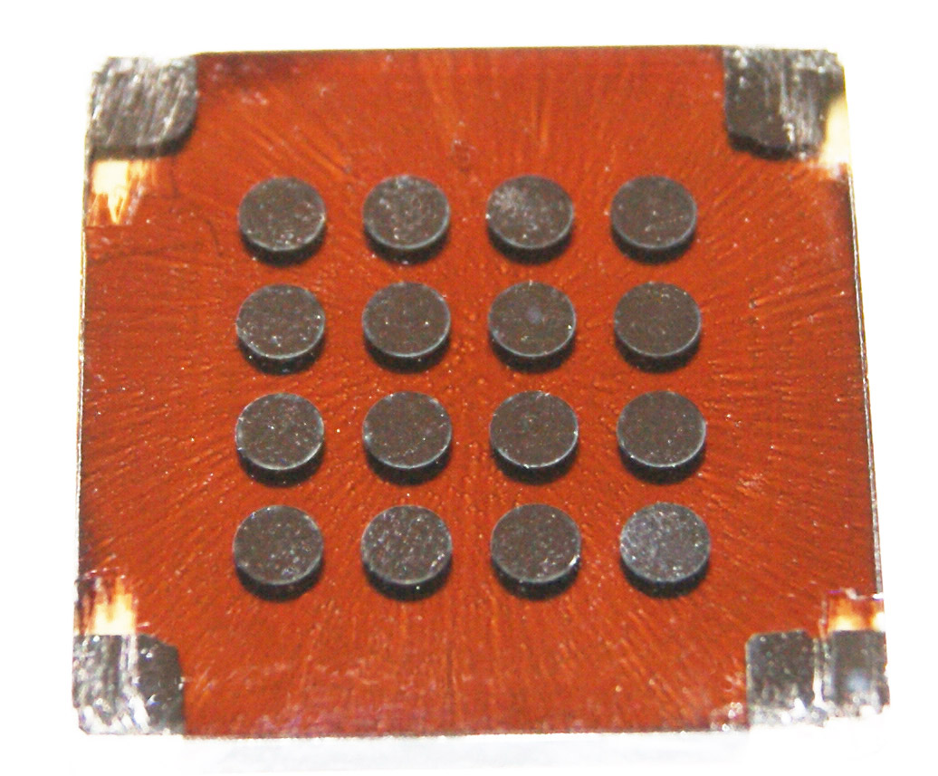 This experimental solar cell uses eight layers of colloidally-deposited quantum dots to efficiently capture a wide range of the solar spectrum. The metal dots on the front surfaces are the electrodes connected to each layer, two each for a total of sixteen. The "starburst" patterning of the cell material is due to the spin-casting technique.